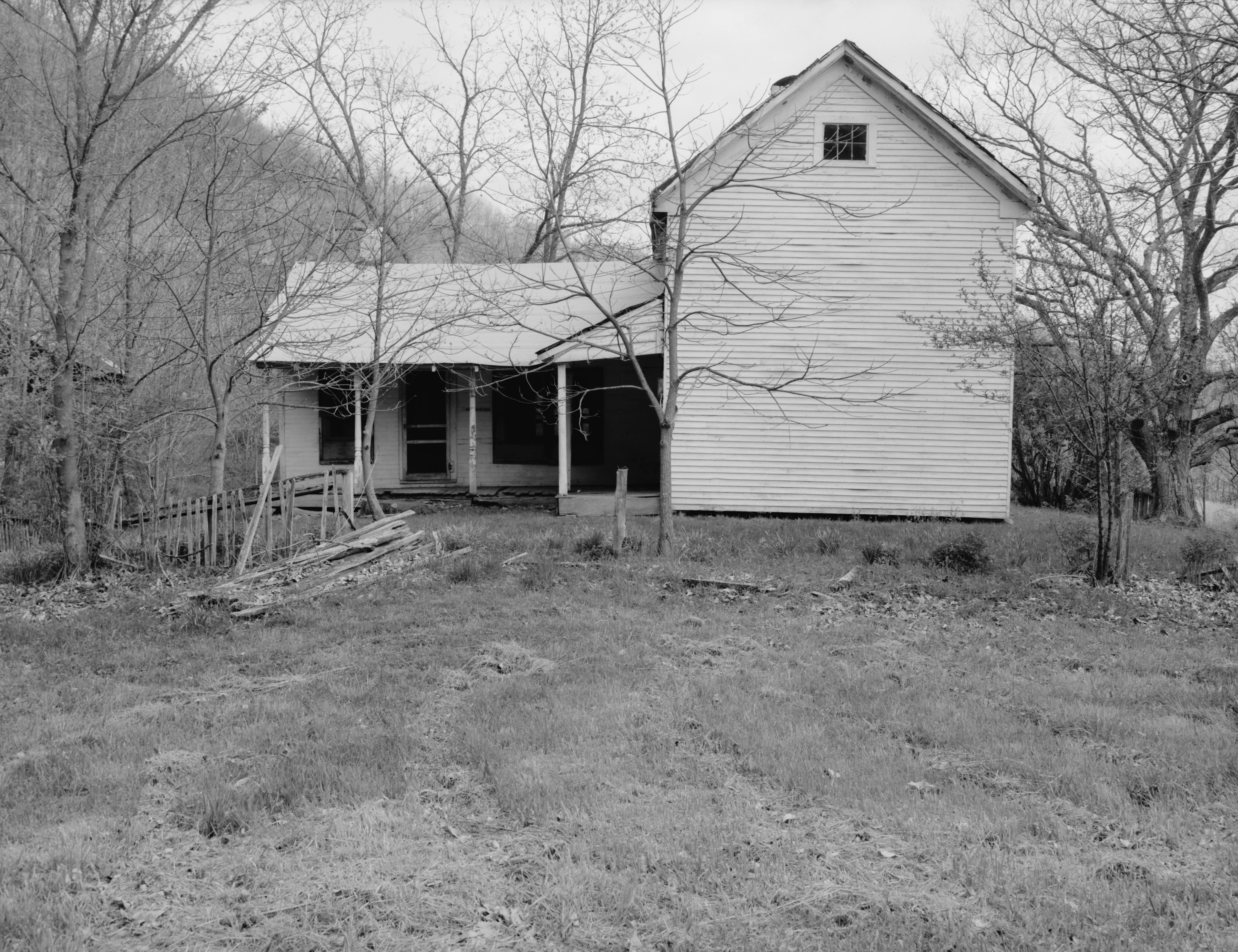 Southern front of the farmhouse at the Trump-Lilly Farmstead, located along County Route 26/3 near Hinton in Raleigh County, West Virginia, United States. The farm complex is listed as a historic district on the National Register of Historic Places.